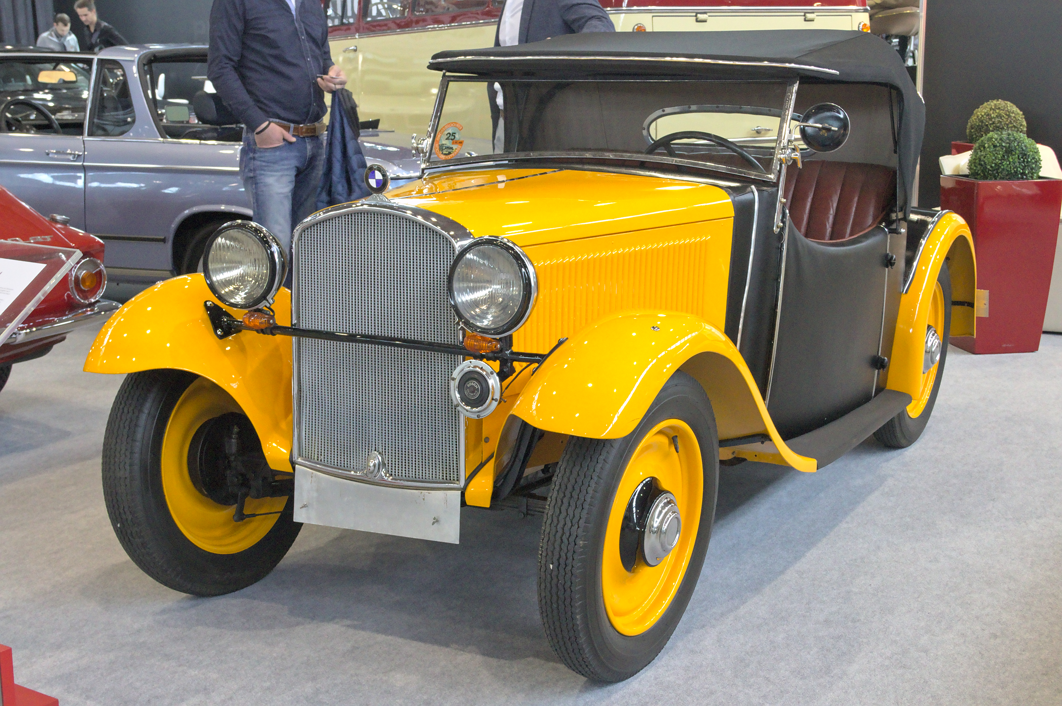 BMW 3/20HP AM4 at Retro Classics 2020